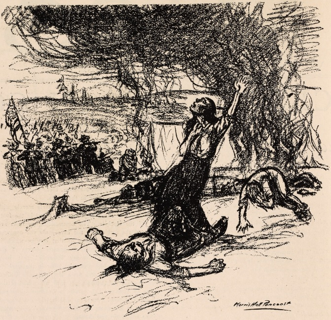 Sketch drawing of the Ludlow Massacre of 1914. Woman in miner tent camp gasping for air, while standing over dead woman's body and tents burn, while in the background Colorado militia fire rifles at the civilian victims.